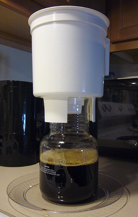 A Toddy Cold Brew Coffee System in action.